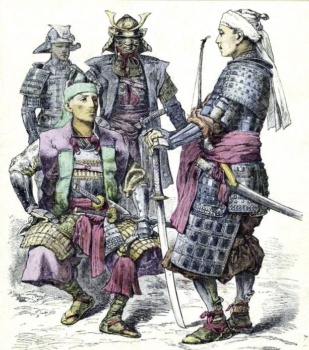 Group of four samurai.